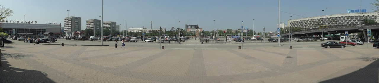 "Karaganda Passazhirskaya" railway station